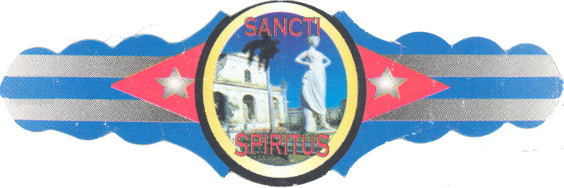 Scan of cigar band, Sancti Spiritus brand